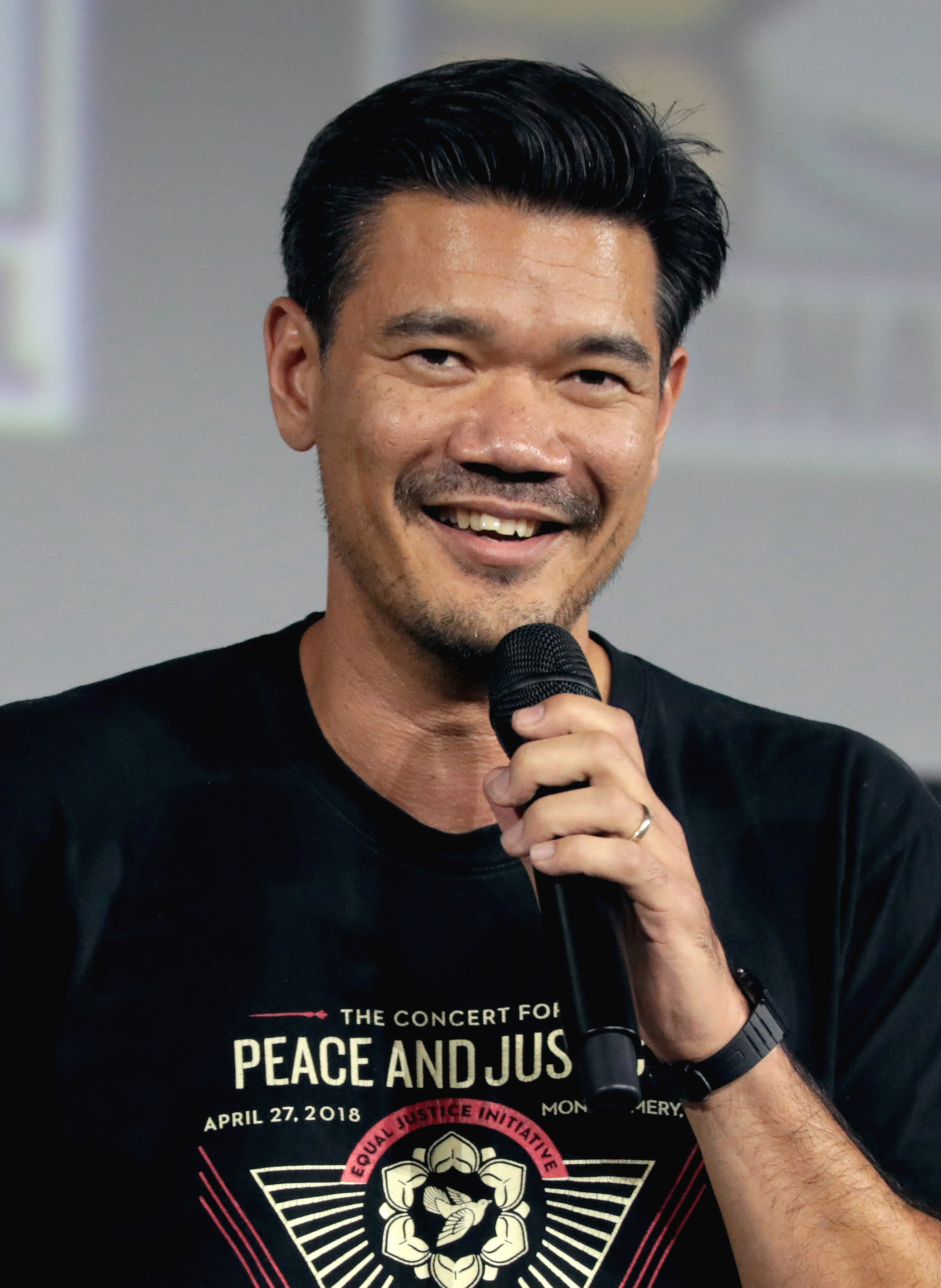 Destin Daniel Cretton speaking at the 2019 San Diego Comic-Con International in San Diego, California.